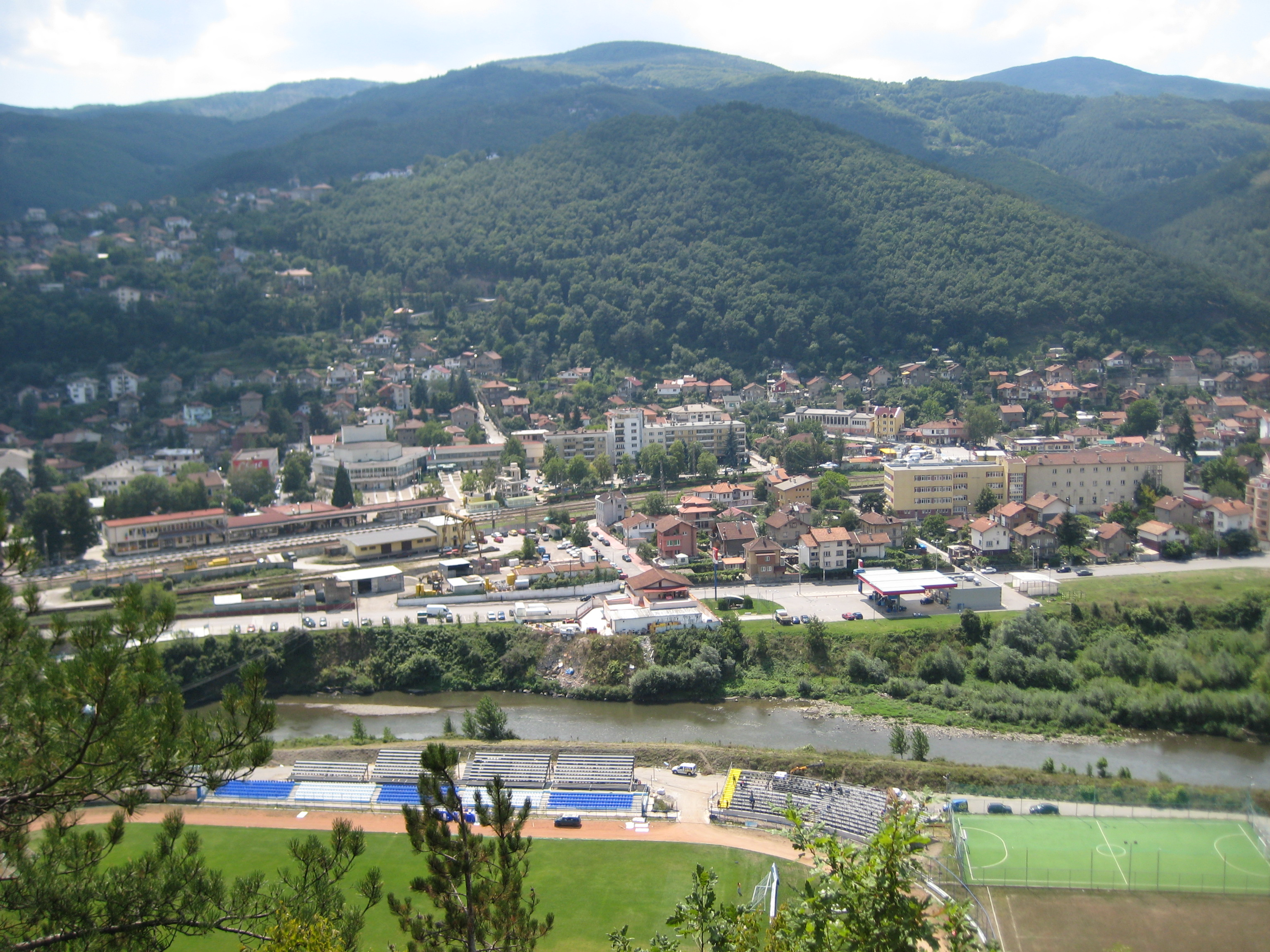 View on the bulgarian Town Svoge. Train station, Iskar river and soccer arena